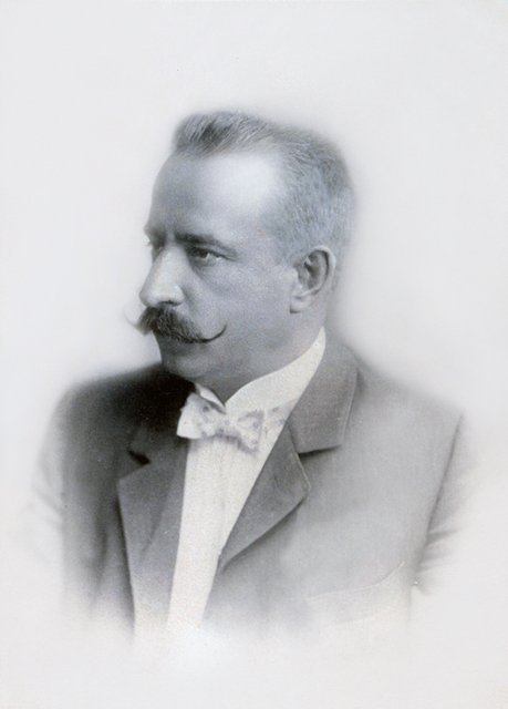 Photograph of Dmitri Leonidovich Romanowsky